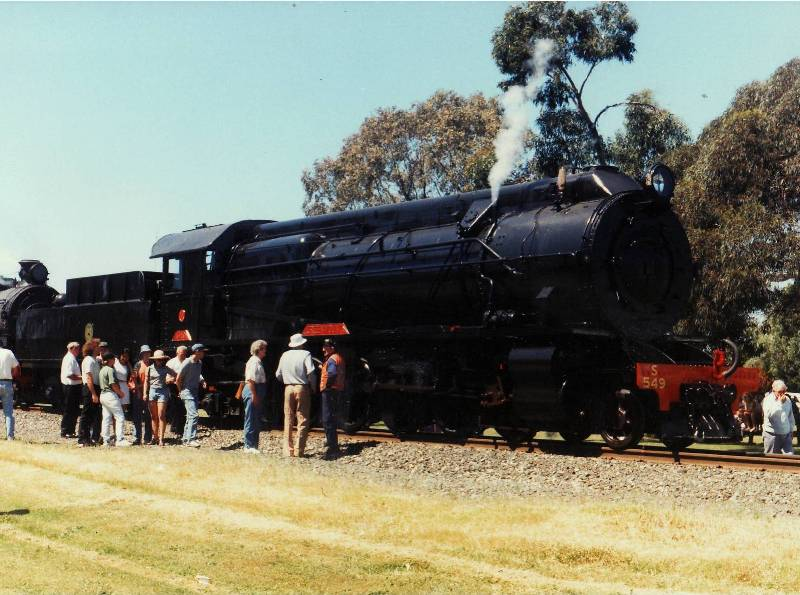 Preserved in working condition, S549 Greenmount is seen here at Harvey on one of its first rail tours following restoration.